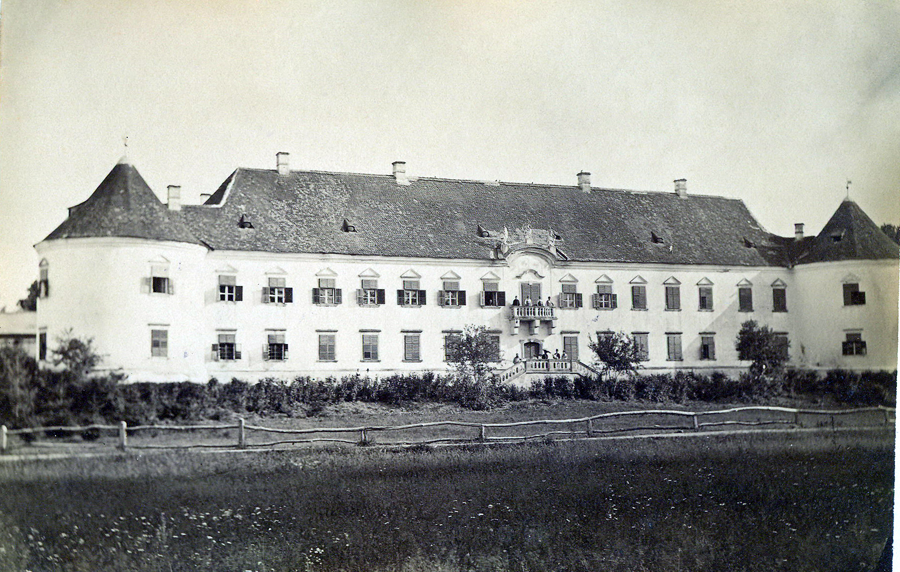 Banffy Castle in Bonţida, 1890